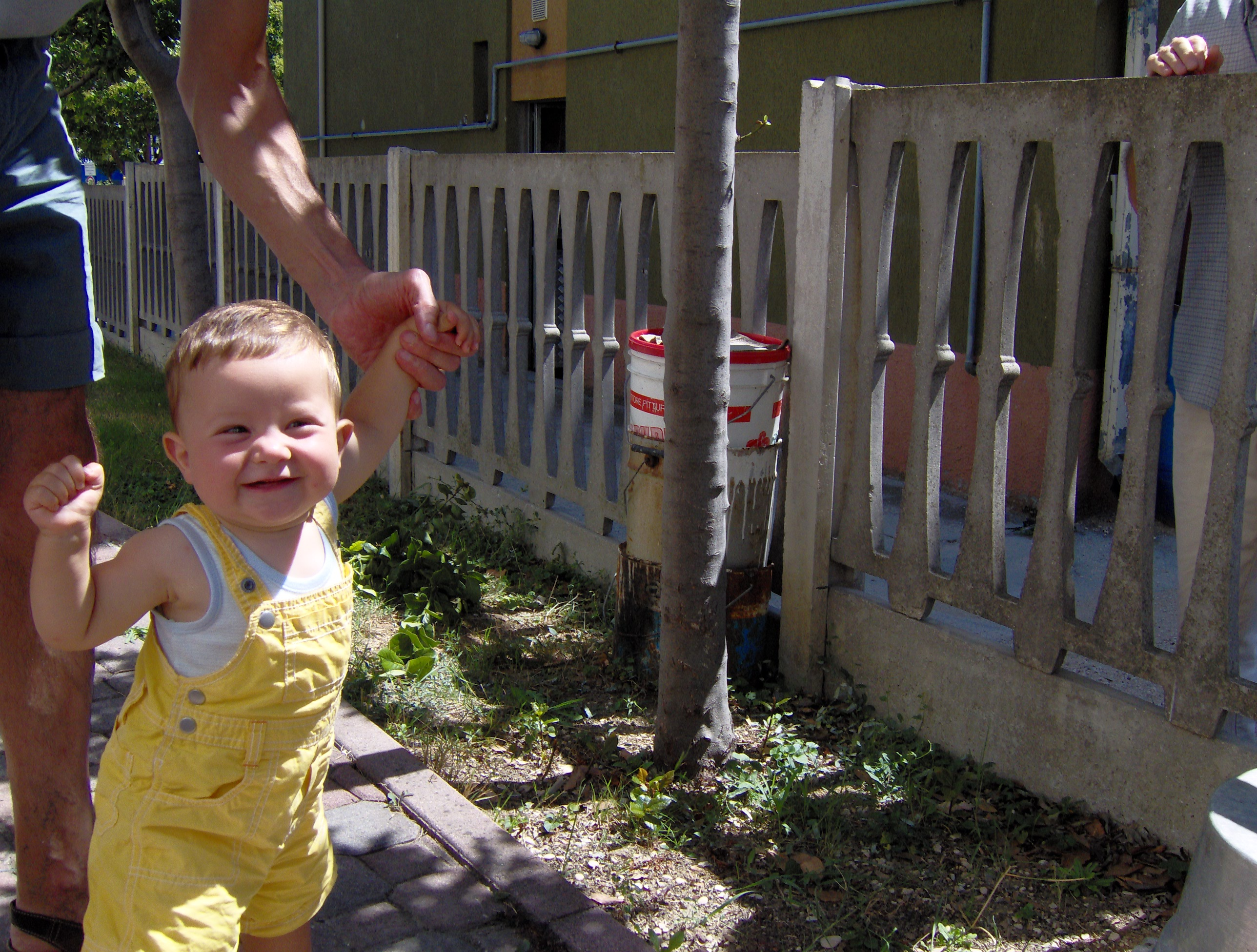 baby while making his first steps